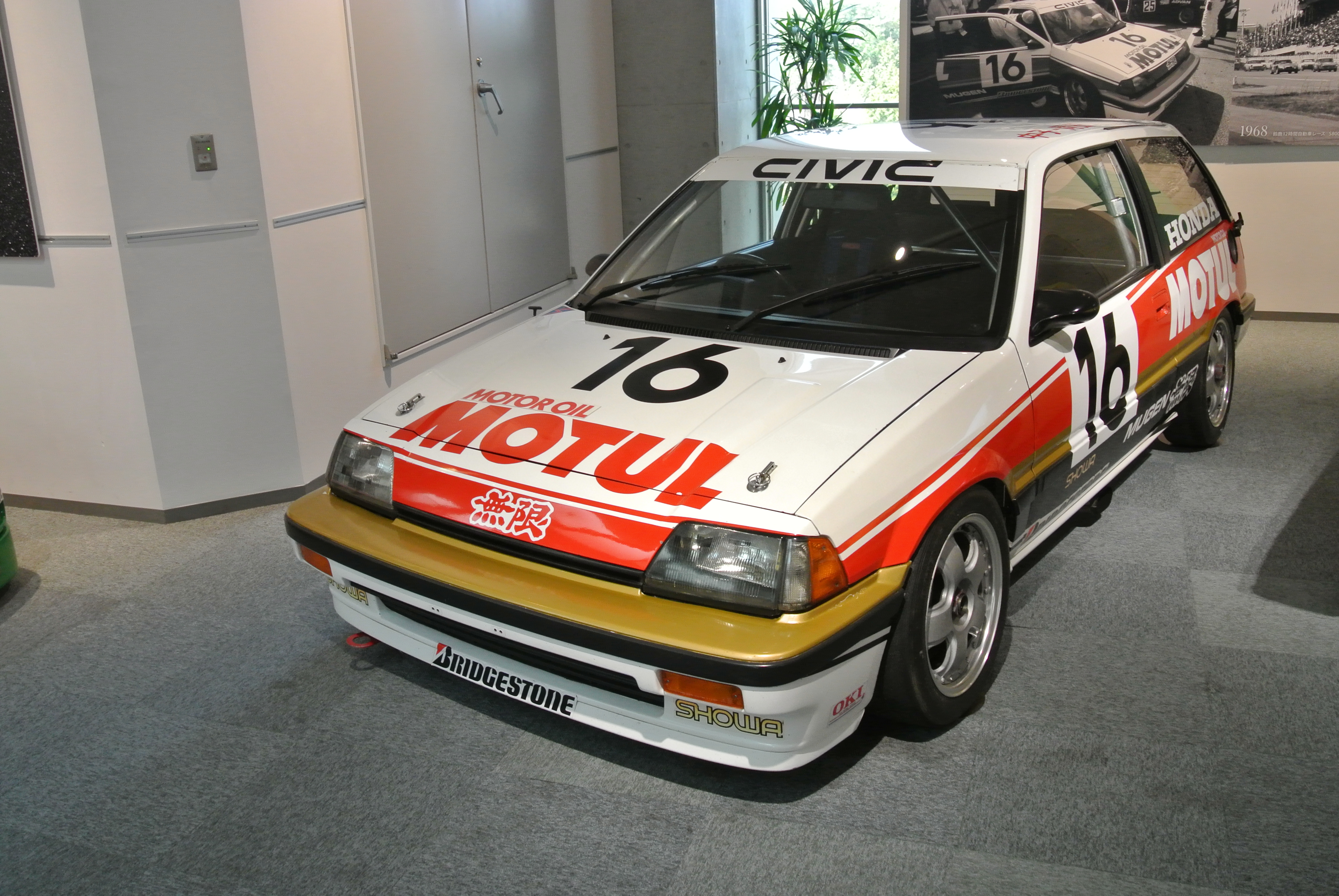 Honda CIVIC in the Honda Collection Hall.